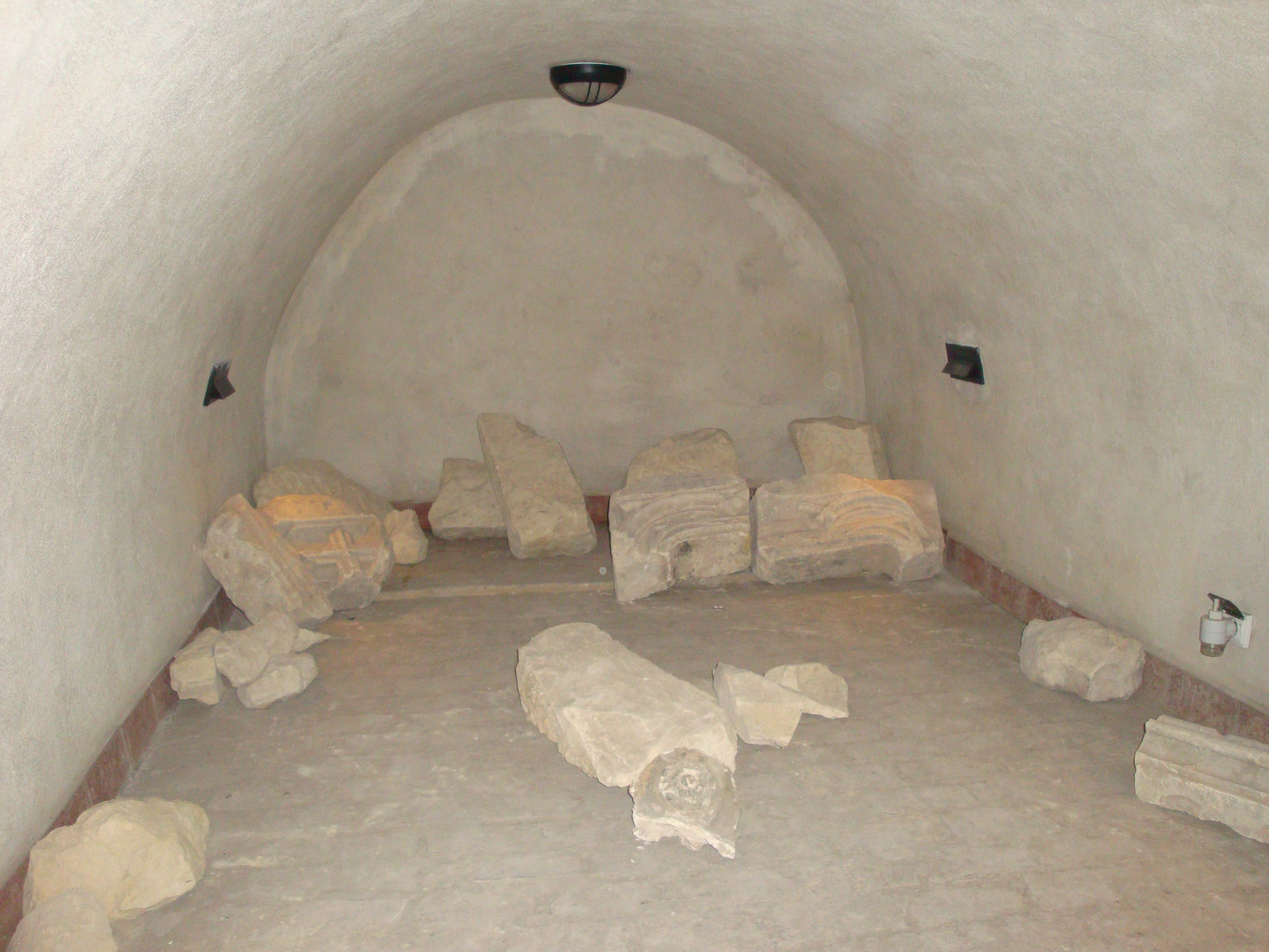 Lublin Underground Route leads trough cellars under Lublin Old City.